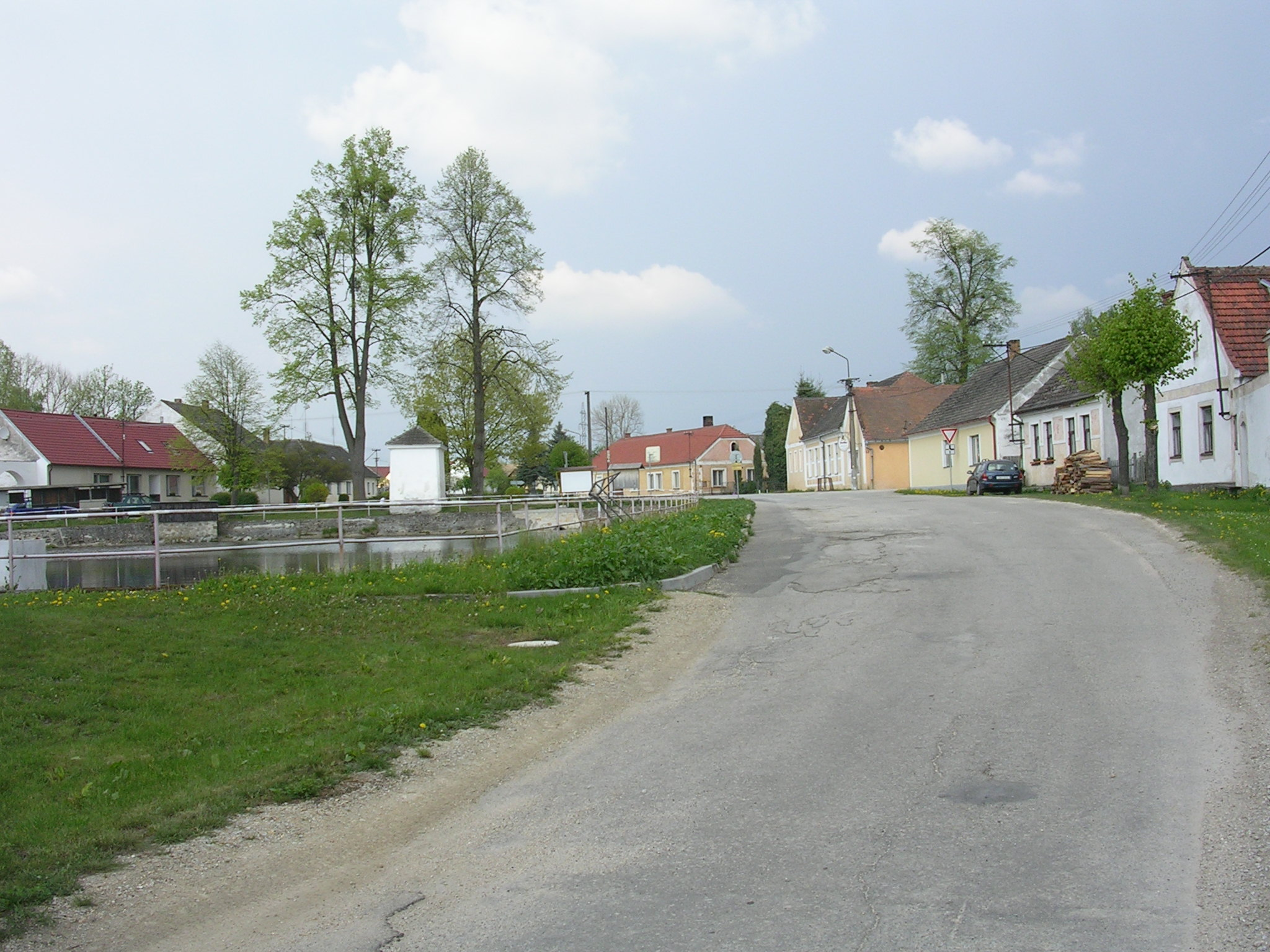 Chlum u Třeboně-Lutová, South Bohemian Region, the Czech Republic.